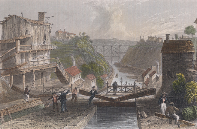 View east of eastbound Lockport on the Erie Canal by W.H. Bartlett, 1839